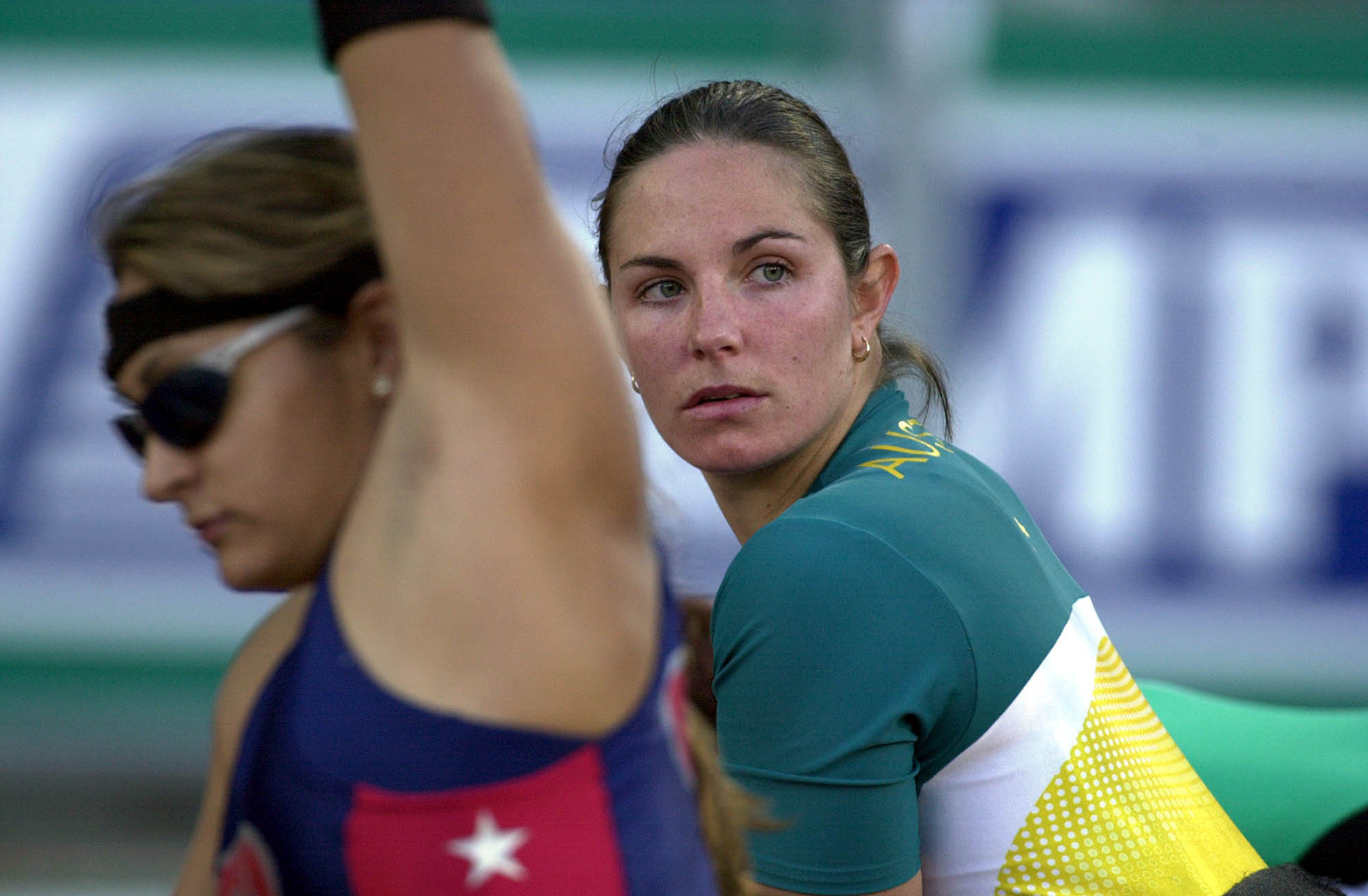 Australian wheelchair racer Christie Skelton shown waiting at the 100 m semi final wheelchair race event at the 2000 Sydney Paralympic Games, Day 02. Cheri Beccera of the United States is seen in the foreground.